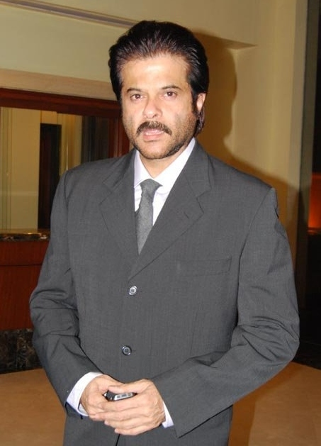 Anil Kapoor at the Indo Wales Friendship dinner at the JW Marriott